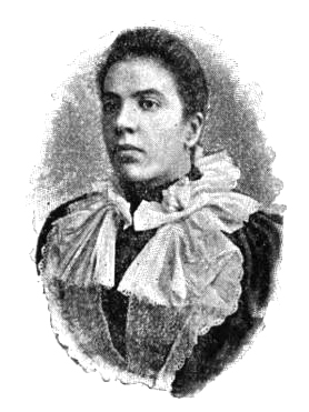 Grazia Deledda, Italian writer